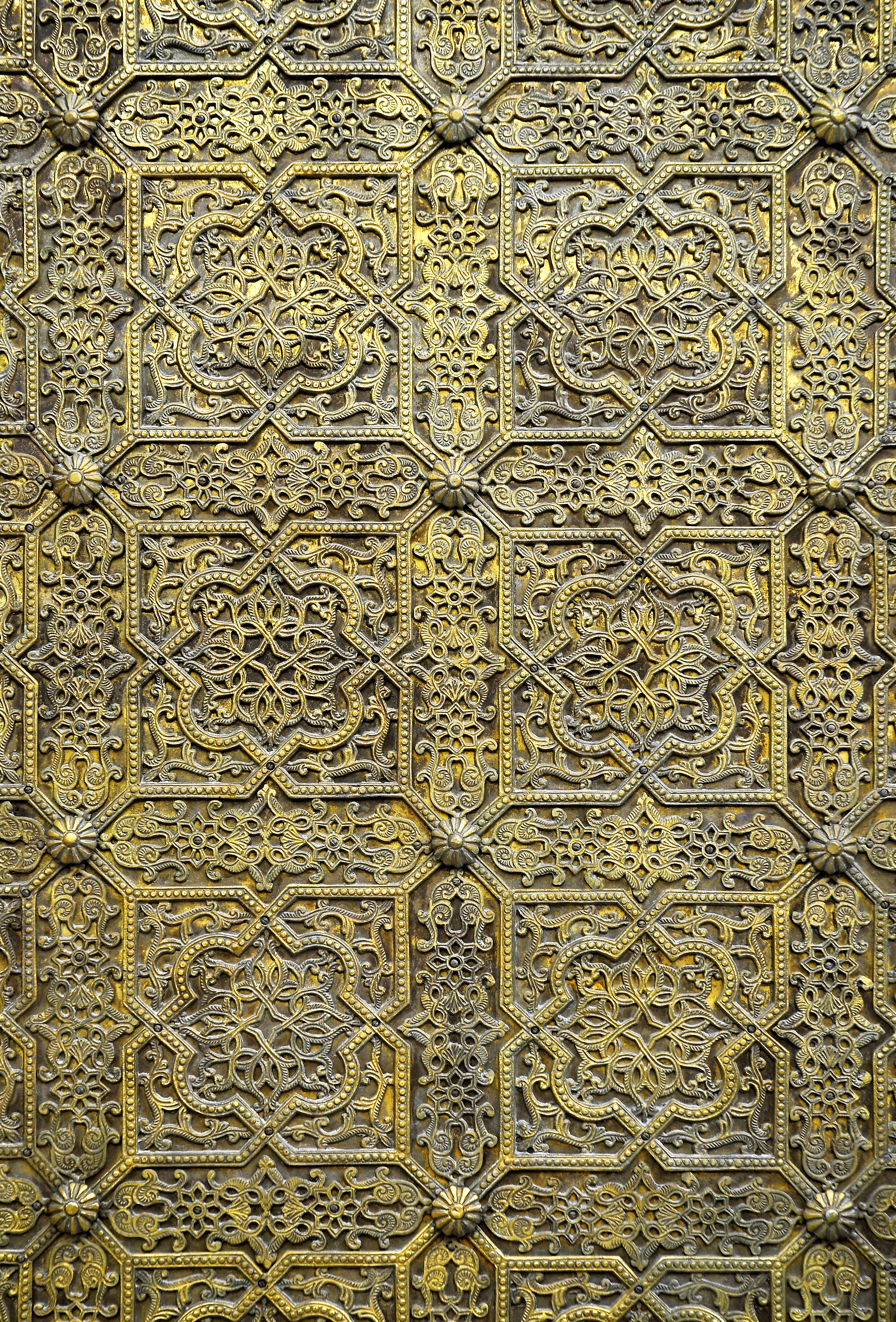 Detail of a door. Emir Abdelkader Mosque. Constantine, Algeria